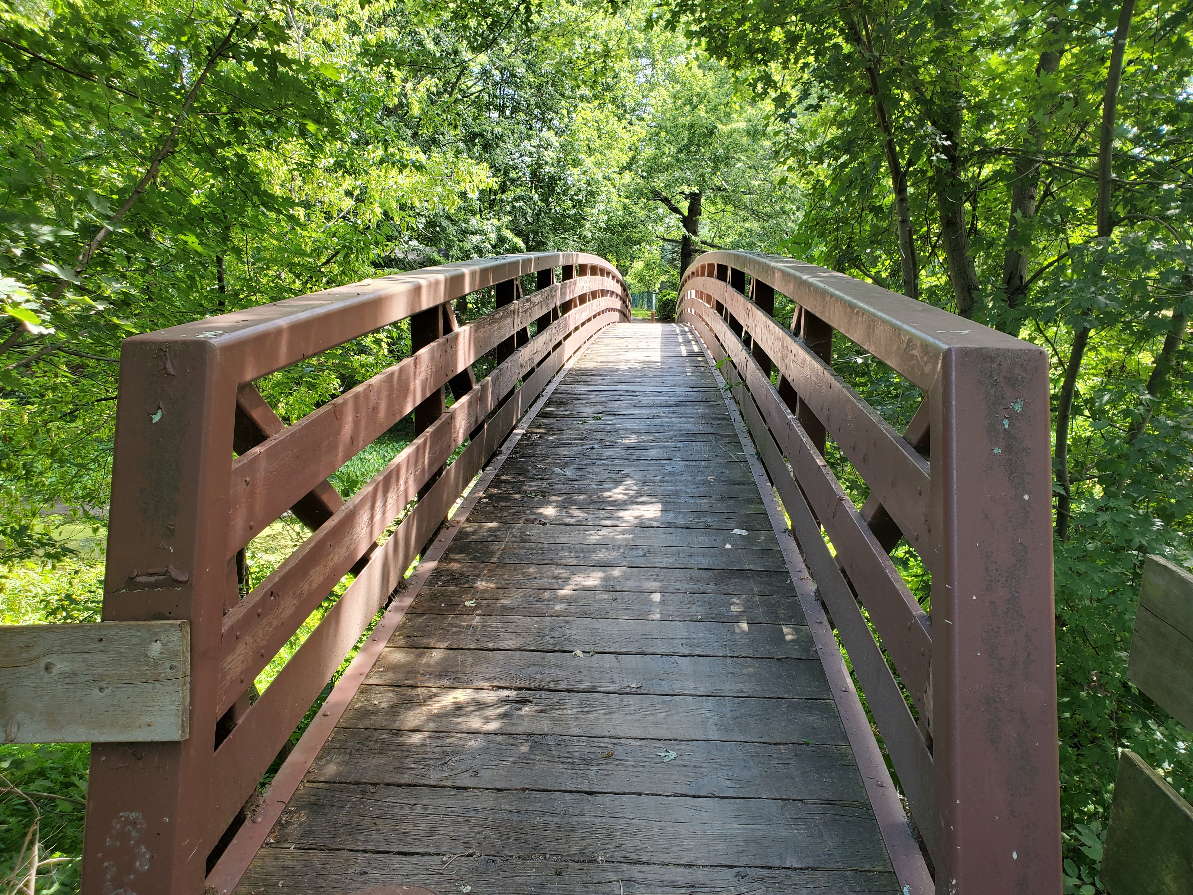 Pedestrian bridge connecting the natural park to Île Goyer